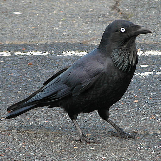 Bird, Australian Raven, Corvus coronoides subspecies perplexus. Kings Park, Perth.